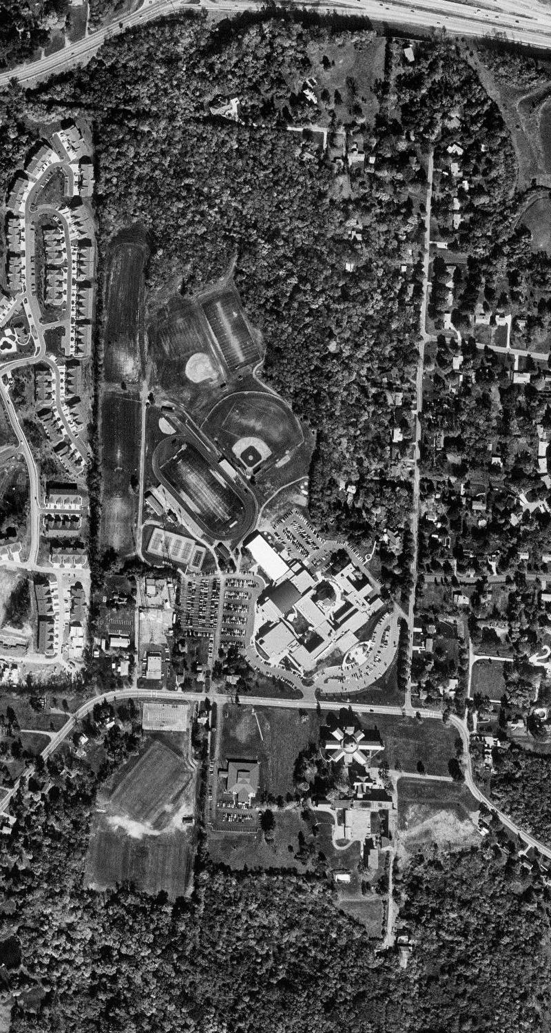 Black-and-white digital orthophoto quadrangle (DOQQ) view of St. Xavier High School in Cincinnati, Ohio, taken in 2000. Visible at the top is Ronald Reagan Cross County Highway at the Winton Road exit. The former Girls' Town of America building is shown fronting North Bend Road in the bottom third of the photograph, just a few months before its demolition. This orthophoto includes the 1998 addition of Keating Natatorium, Holy Companions Chapel, and the science wing but predates the Performance Center and rebuilt St. Xavier Stadium. The bottom 800×100 pixels have been cropped, to remove the USGS logo.